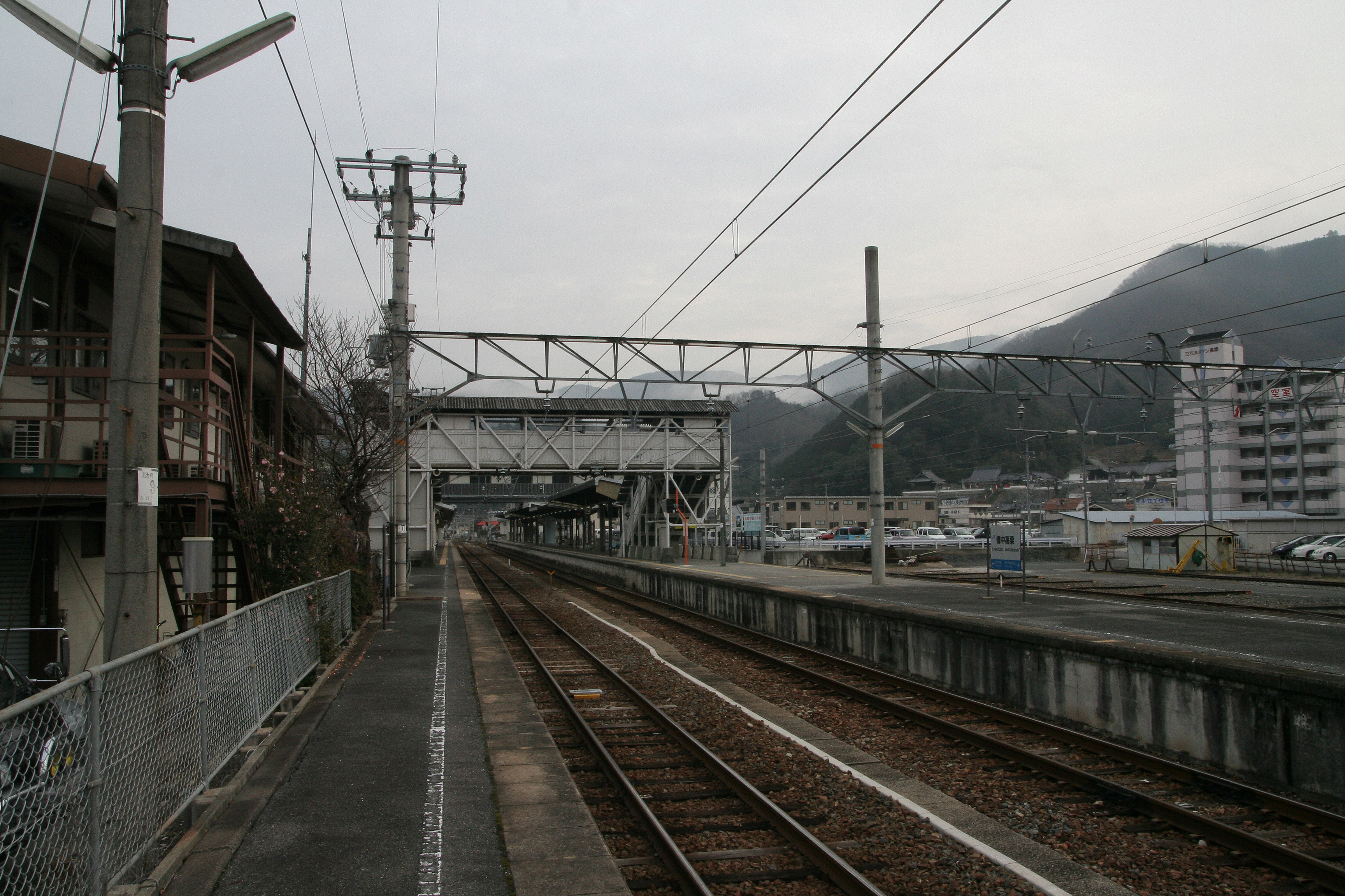 West Japan Railway Hakubi Line Bitchu-takahashi Station enclosure